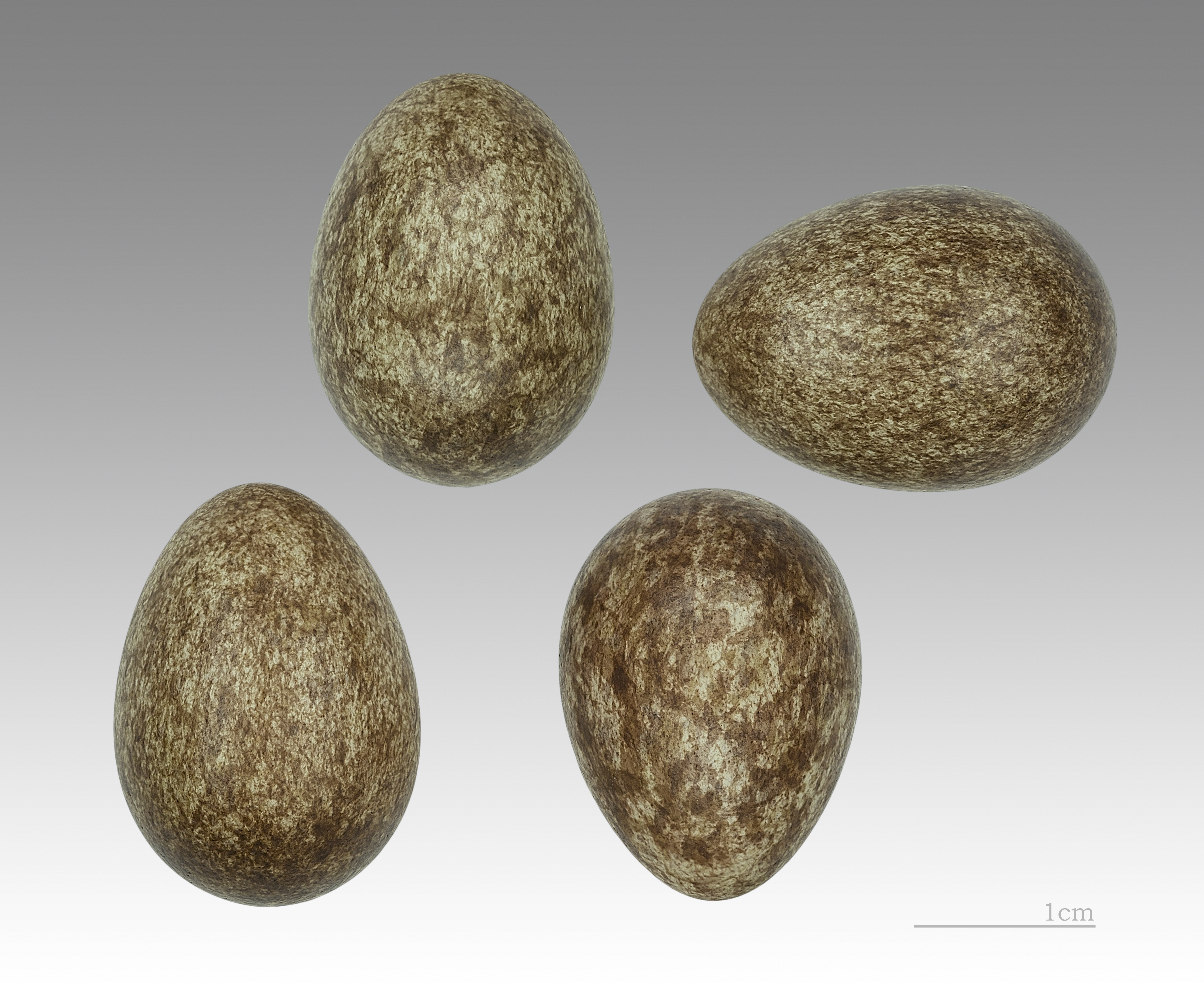 Egg of Eurasian Tree Sparrow. Collection of Jacques Perrin de Brichambaut.